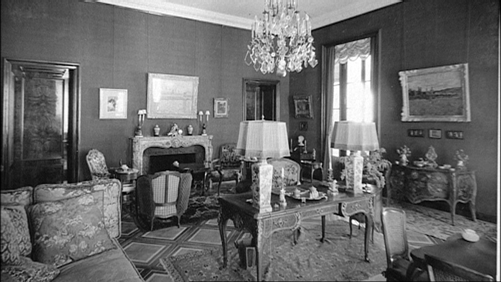 Photography of Villa Emden, Brissago Island, Interieur, ca. 1935